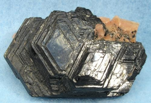 Biotite Locality: Eureka Farm, Usakos, Karibib District, Erongo Region, Namibia (Locality at ) Size: 4.3 x 2.8 x 1.2 cm. A superb book of sharp complex Biotite Mica intergrown with Orthoclase Feldspar. The luster and form are both superb, and the crystal is a very impressive 4.2 cm across. Ex. Charlie Key.